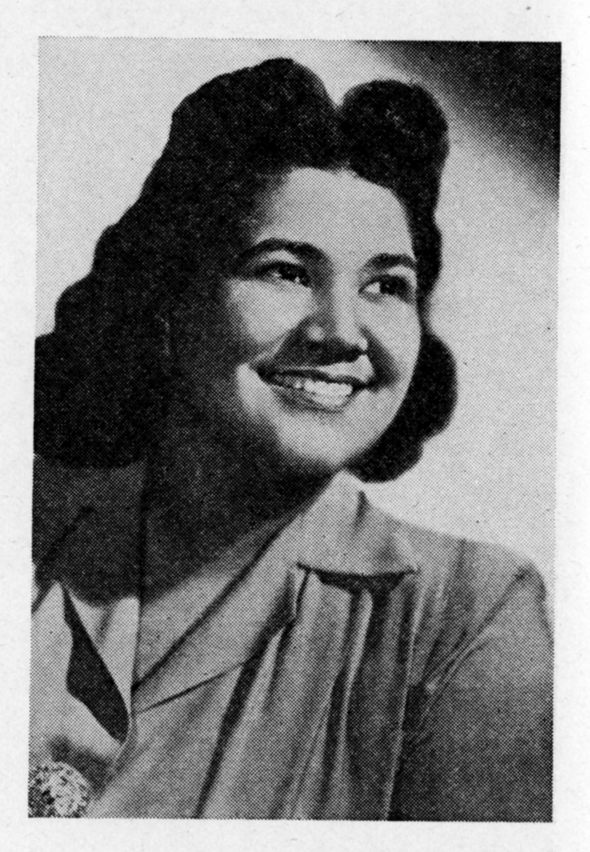 Photograph of Dorothy Maynor